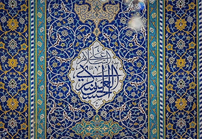 Al-Askari Mosque in Samarra